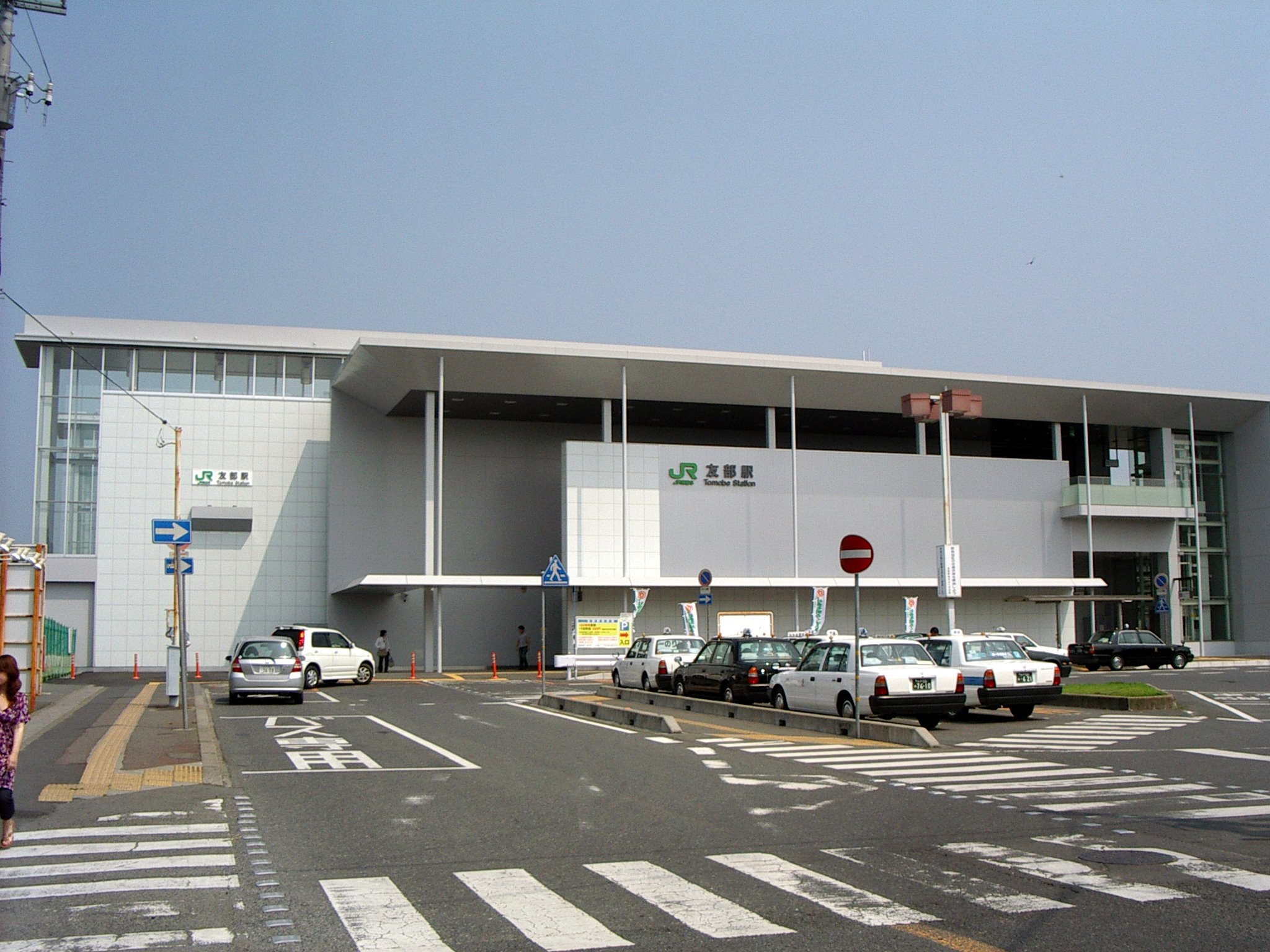 Tomobe Station, Kasama, Ibaraki, Japan